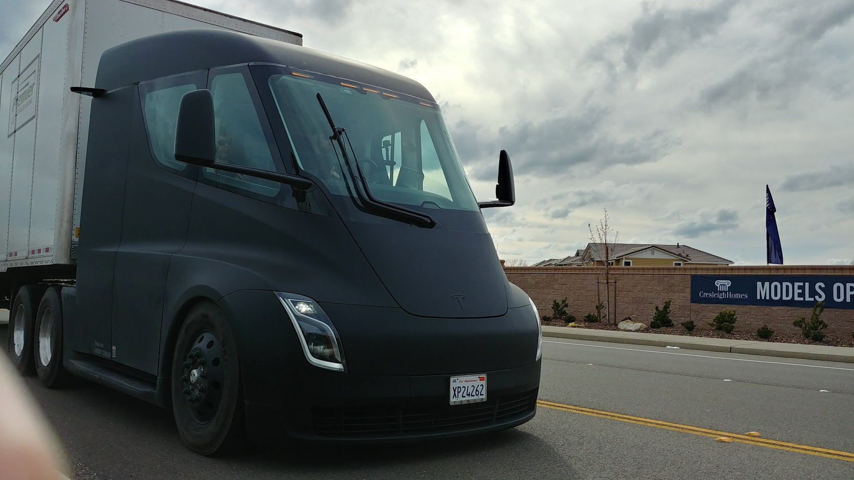 A black Tesla Semi in Rocklin, California